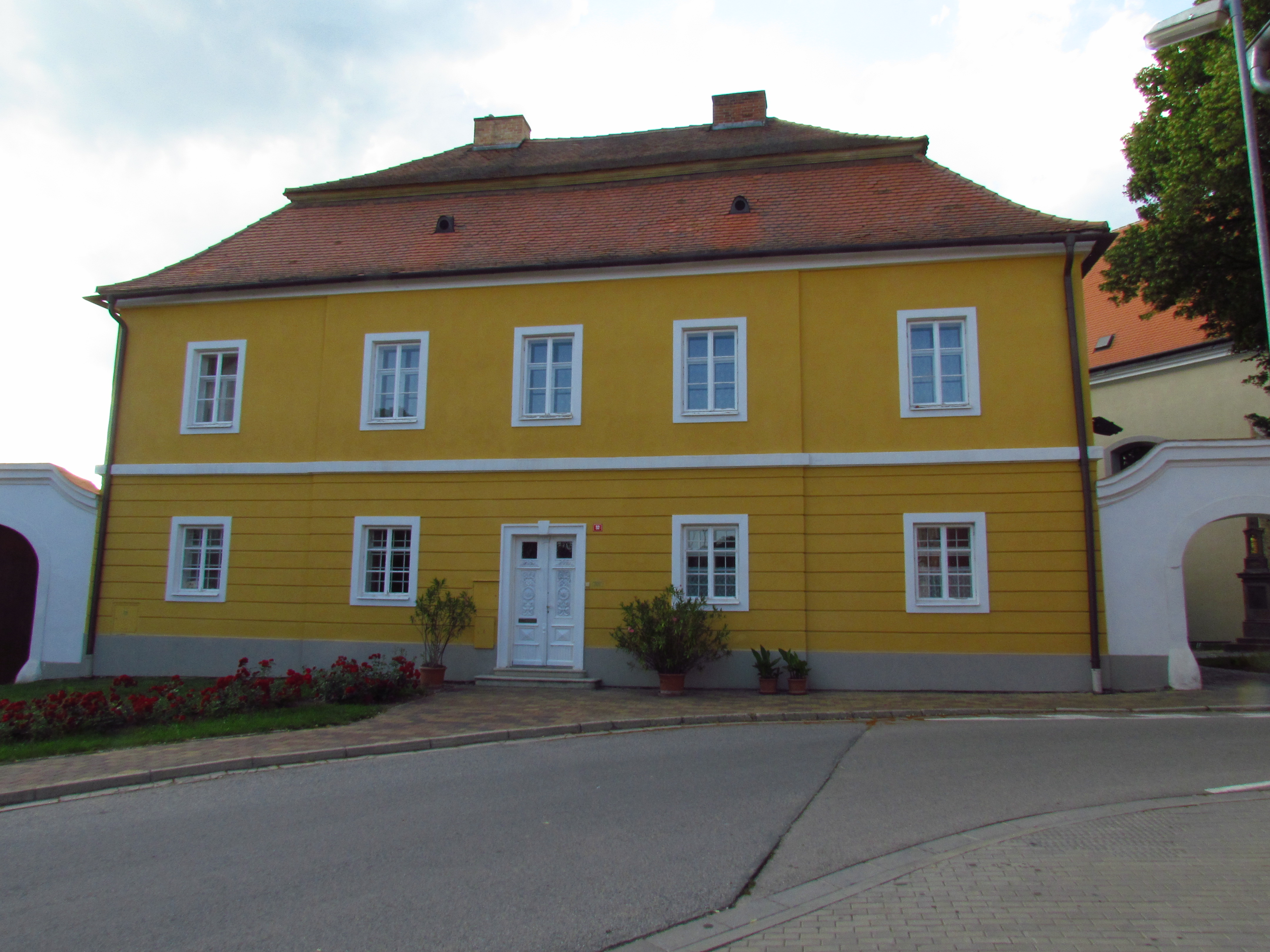 Rectory in Rouchovany, Třebíč District.